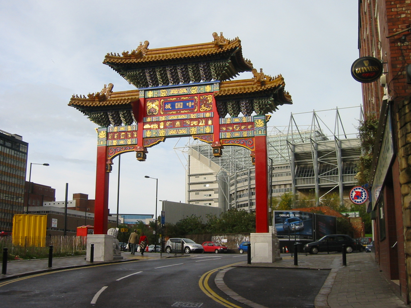 The entrance arch, or paifang, to the Chinatown area of Newcastle upon Tyne, Tyne and Wear, UK, was opened in 2005. Behind can be seen St James' Park, home stadium of Newcastle United football team. Picture taken by wurzeller on 6 November 2005 and released under the terms of the GFDL licence